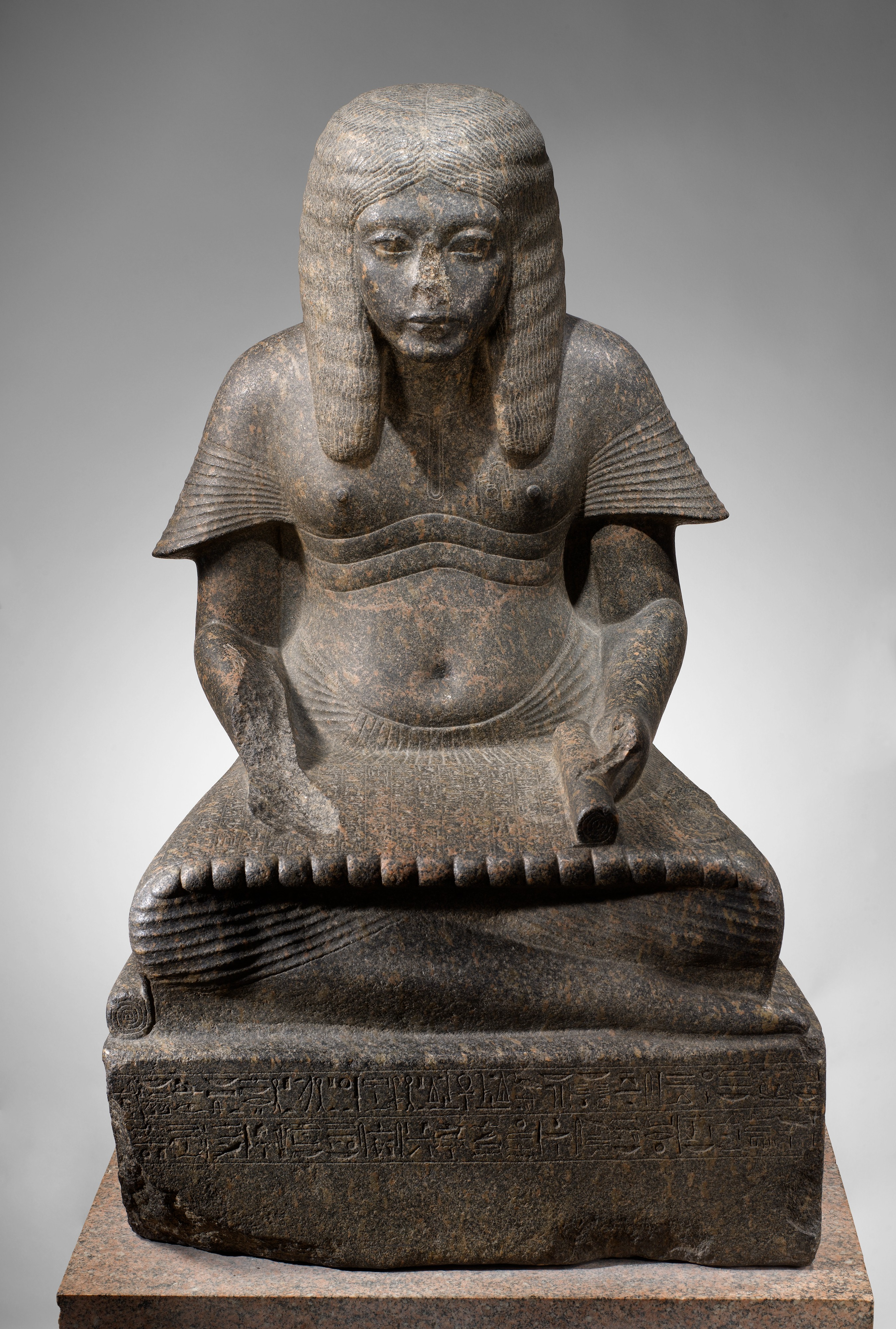 Statue, scribe, Haremhab